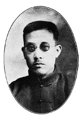 Shen Jianshi